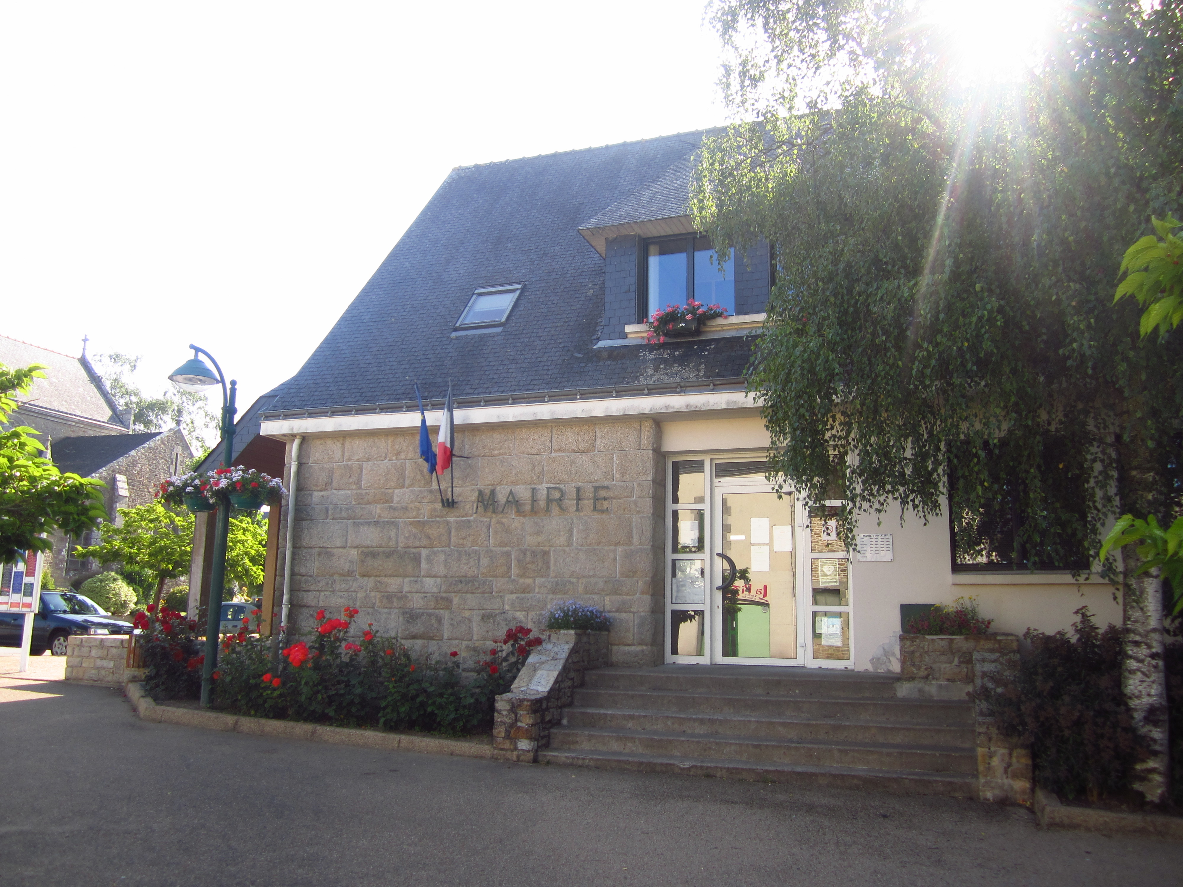 Town hall of Rédené, Finistère